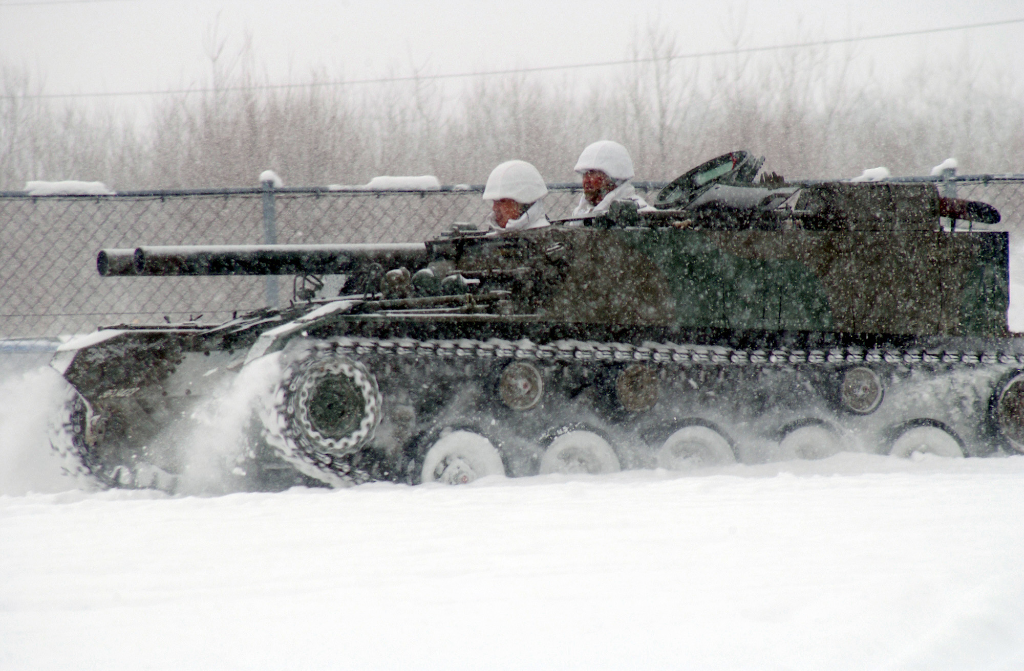 A Japanese Type 60 self-propelled recoilless gun plows through the snow during a demonstration put on by the Japanese Ground Self Defense Force (JGSDF) 2nd Battalion, 3rd Marines, during the start of exercise Forest Light II 2003.